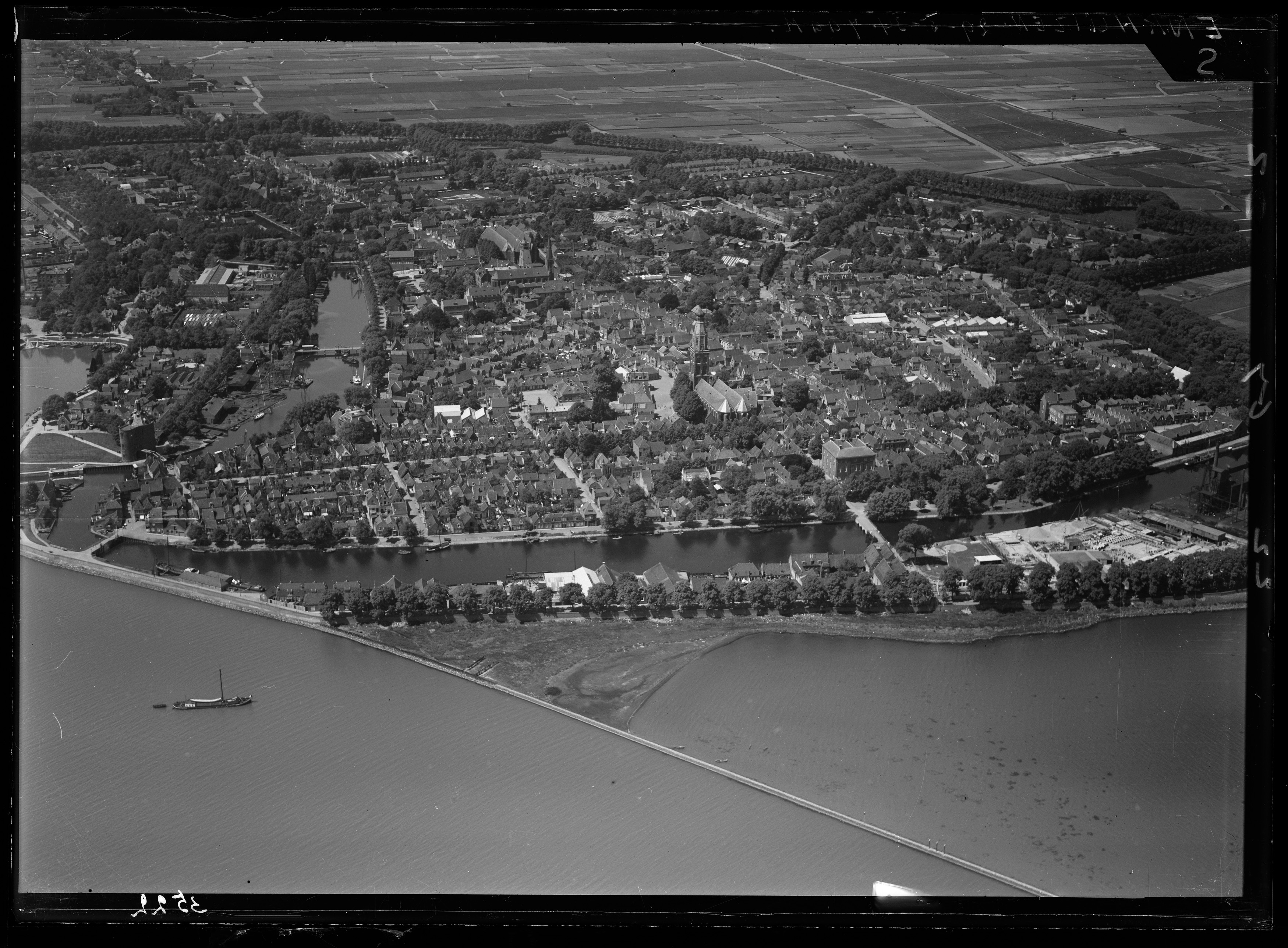 Aerial photograph of Enkhuizen, The Netherlands